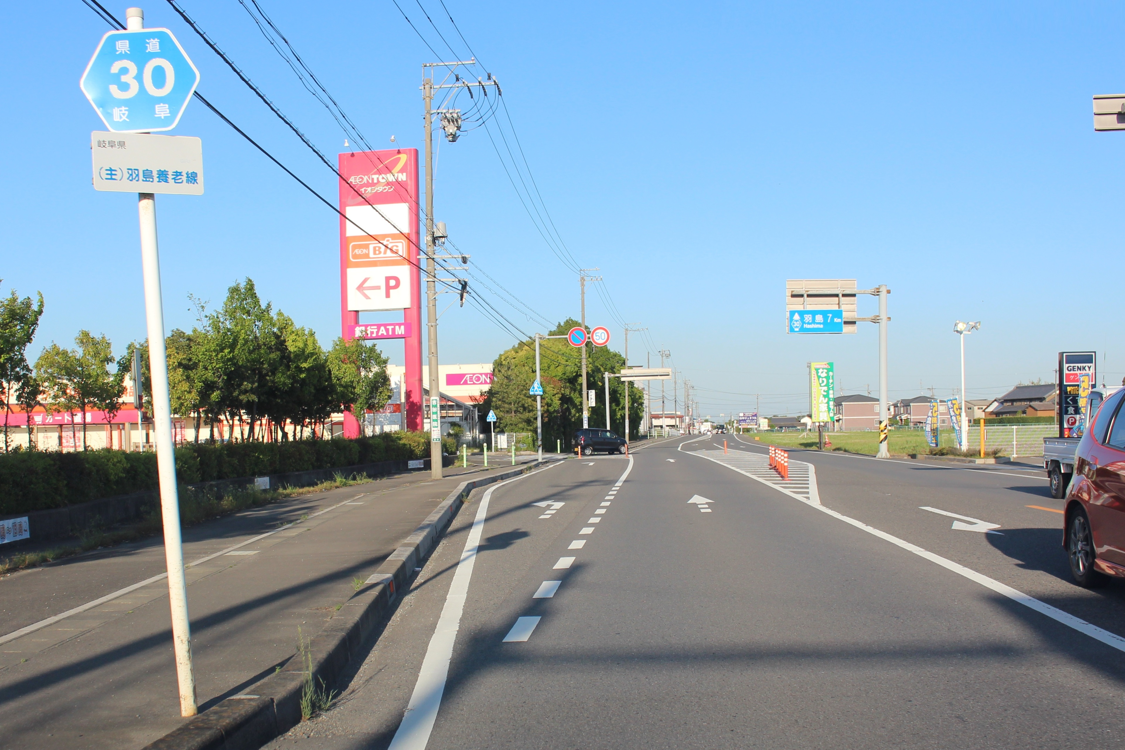 Gifu Prefectural Road Route 30 in Yogo, Wanouchi, Gifu Prefecture, Japan.